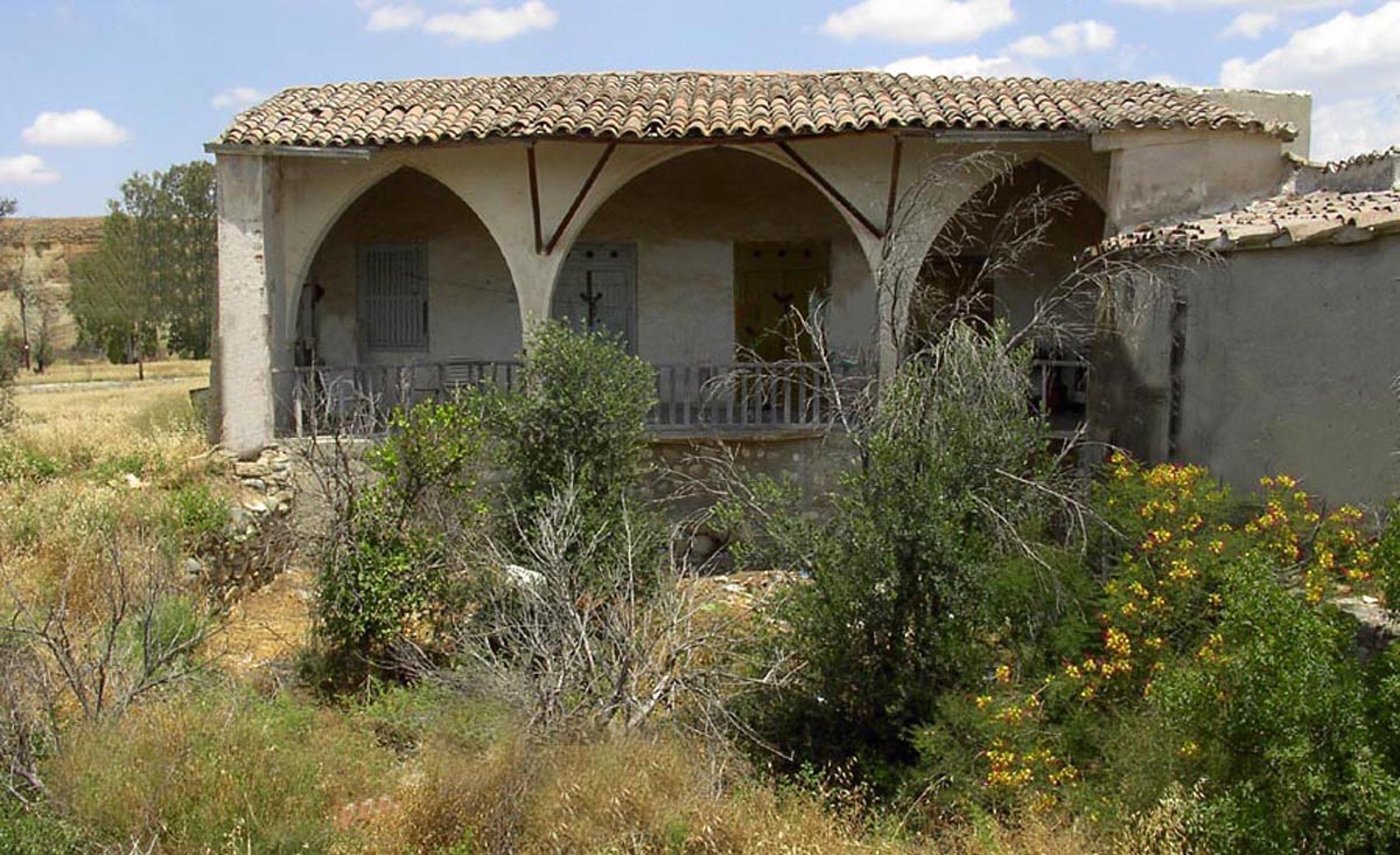 The original "Three Arches" farm house of the Eramian family in Dheftera